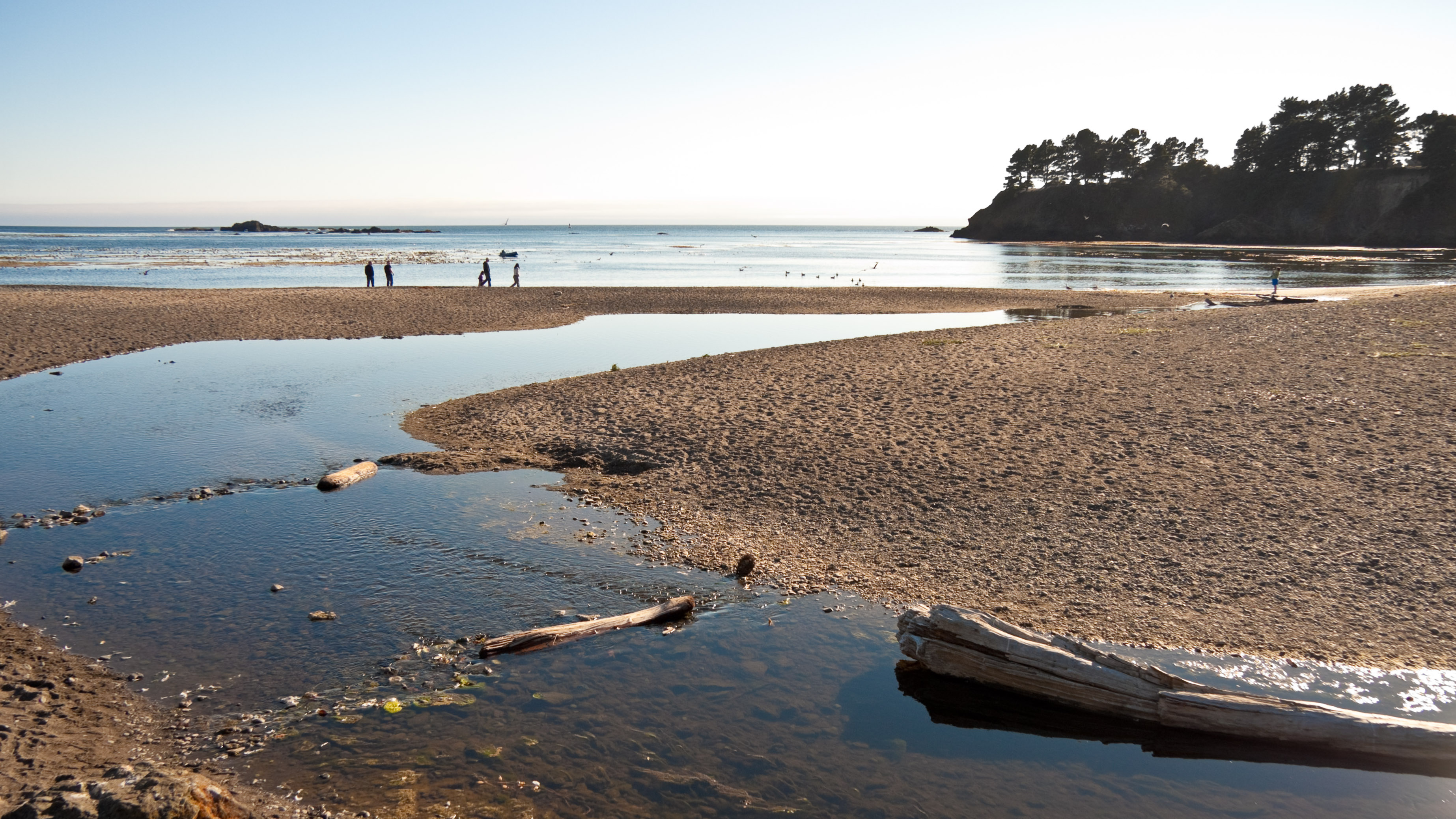 The mouth of the Little River in Van Damme State Park, Mendocino County, California. As seen from the parking lot on the seaward side of California State Route 1.